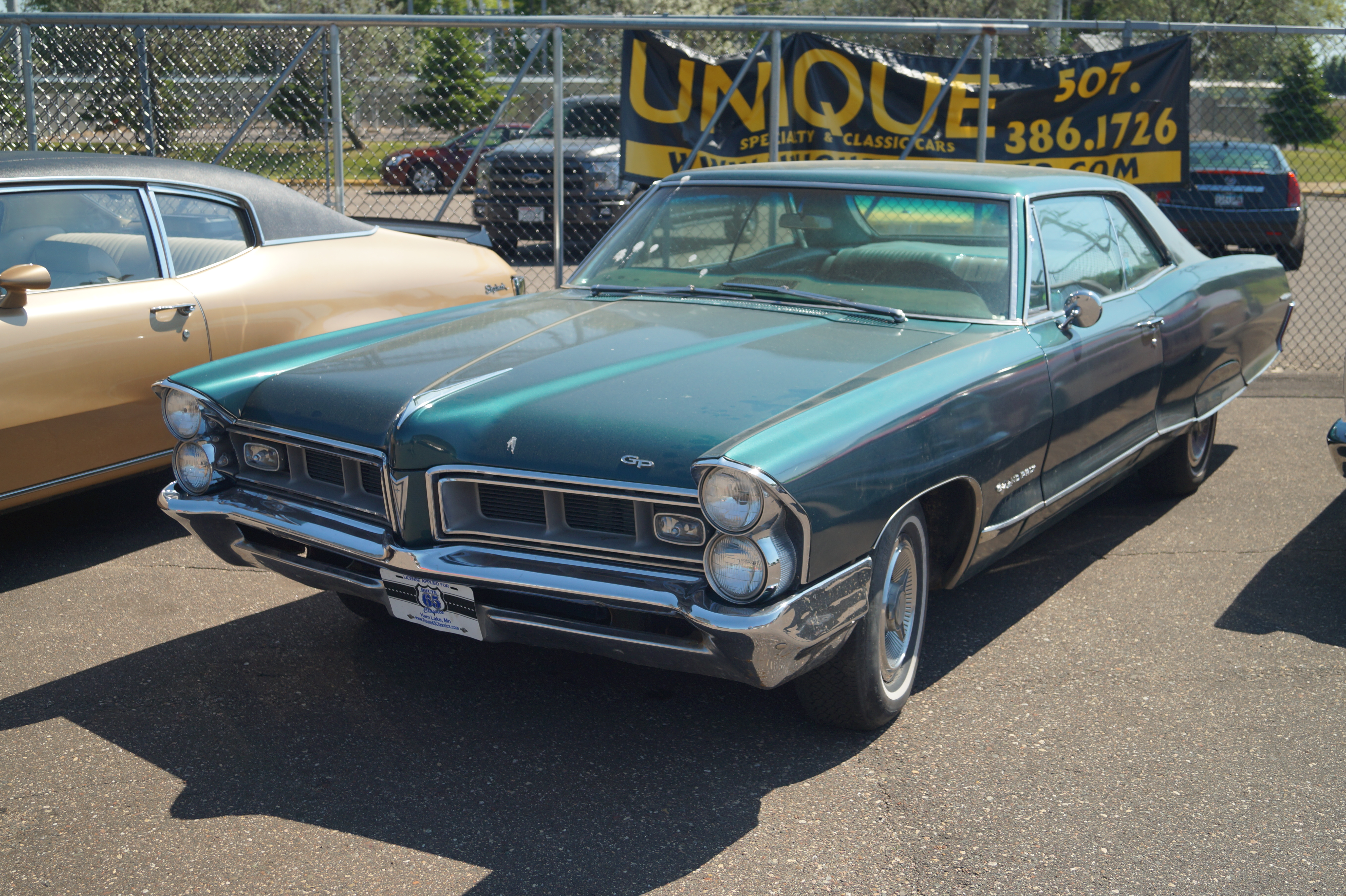 Click here for more car pictures at my Flickr site. Oldsmobile Club of America Minnesota Chapter 4th Annual Spring Dust Off Car Show & Swap Meet Unique Classics on 65 Ham Lake, Minnesota